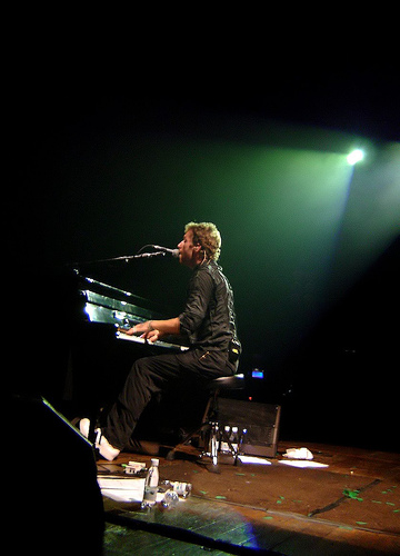 Chris Martin performing "Trouble" during Coldplay's 2007 tour in Brazil